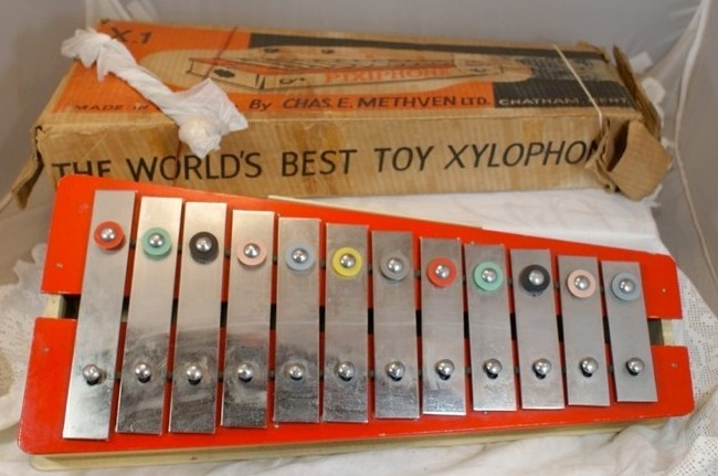 Diatonic Pixihone, cropped version of File:Pixiphone2.jpg